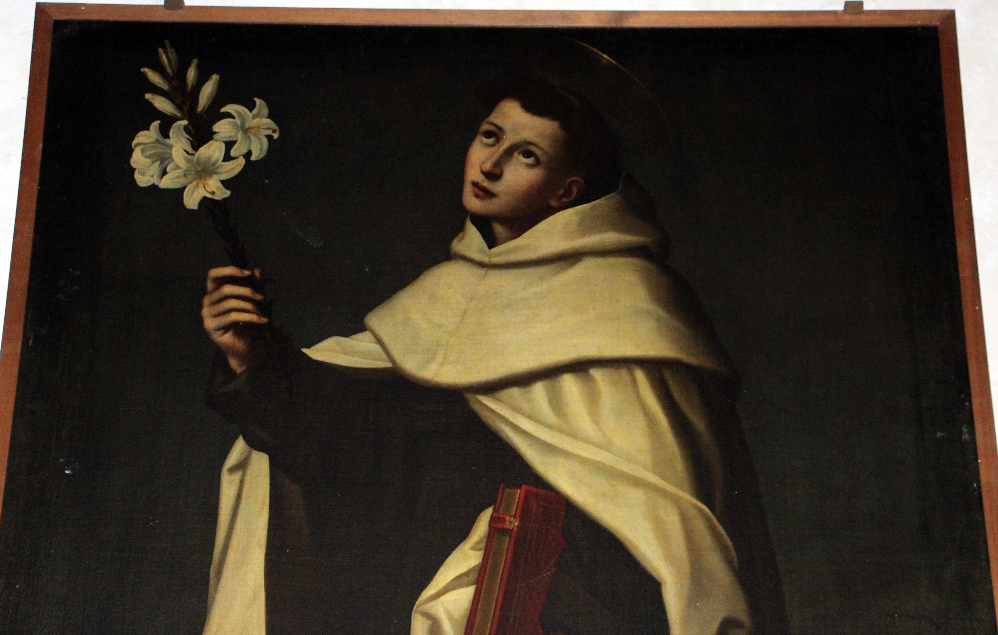 Santa Maria Maddalena de' Pazzi (Florence) - Interior